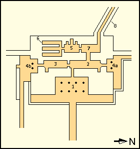 A depiction of the layout of Unas' valley temple. In order: (1) Colonnaded entrance court with eight granite palm columns; (2) Entrance hall; (3) Southern hall; (4a and b) Secondary entrances with 2 granite columns each; (5) Main cult hall; (6) Storerooms; (7) Passageway leading to (8) the Causeway. Based on Lehner, Mark (2008) The Complete Pyramids, New York: Thames & Hudson, pp. 154–155